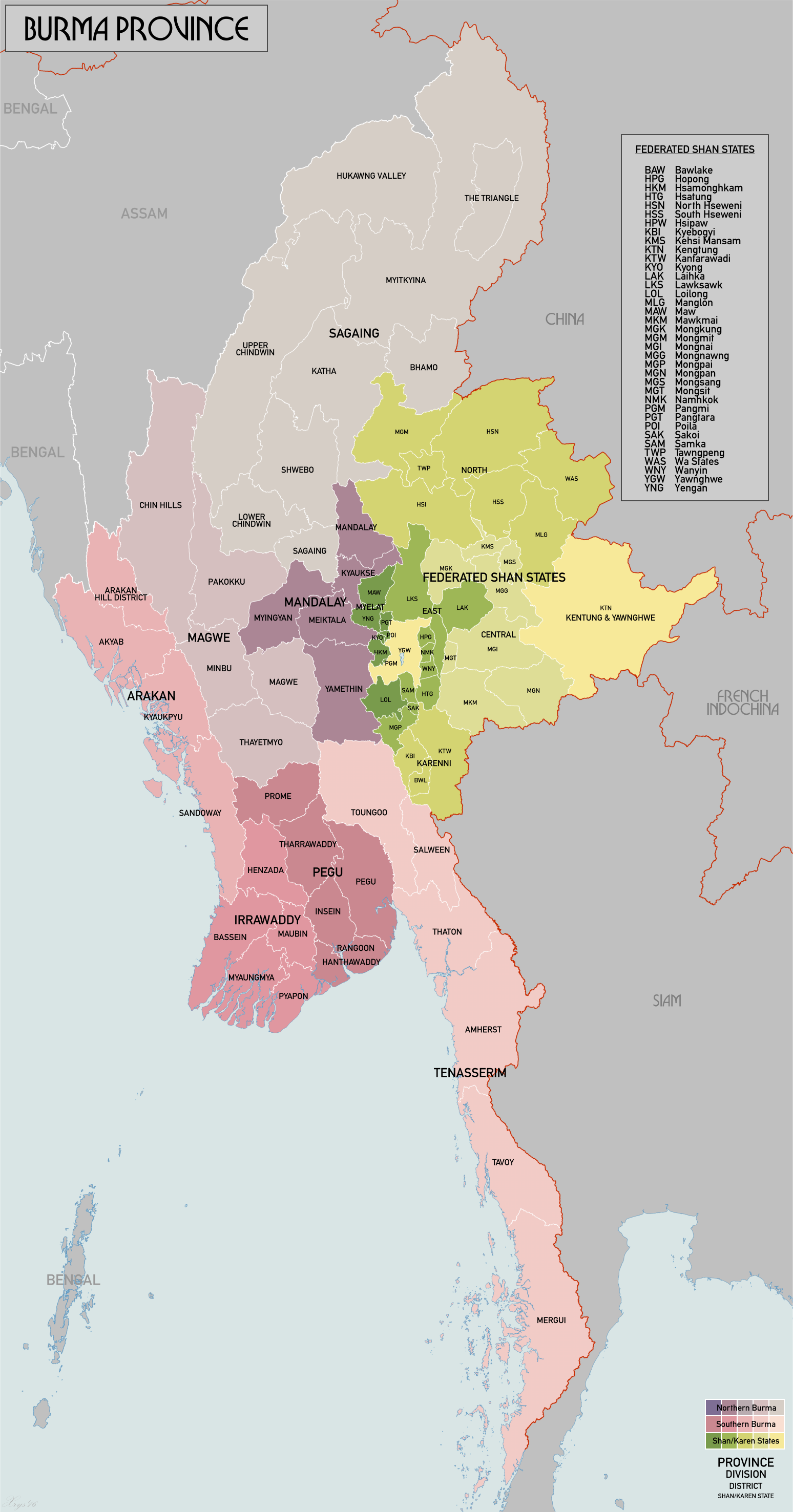 Administrative map of British India's Burma Province in 1931. Source data: Survey of India 1:253k (Perry-Castenada Map Library, Univ of Texas), India 1:1M, Imperial Gazetteer of India 1:4M (Digital South Asia Library, Univ of Chicago). Survey of India Index (Pahar.in).